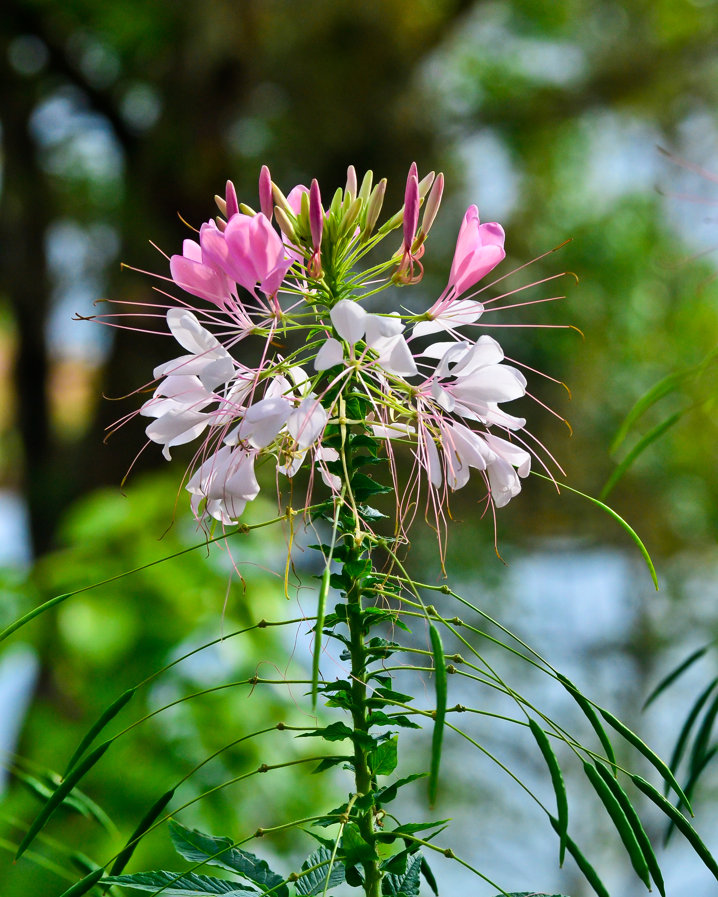 Cleome hassleriana (Spider Flower) in Gavi, Kerala, India. The flowers are purple, pink, or white, with four petals and six long stamens. Flowering lasts from late spring to early fall. It is commonly cultivated in temperate regions as a half-hardy annual.